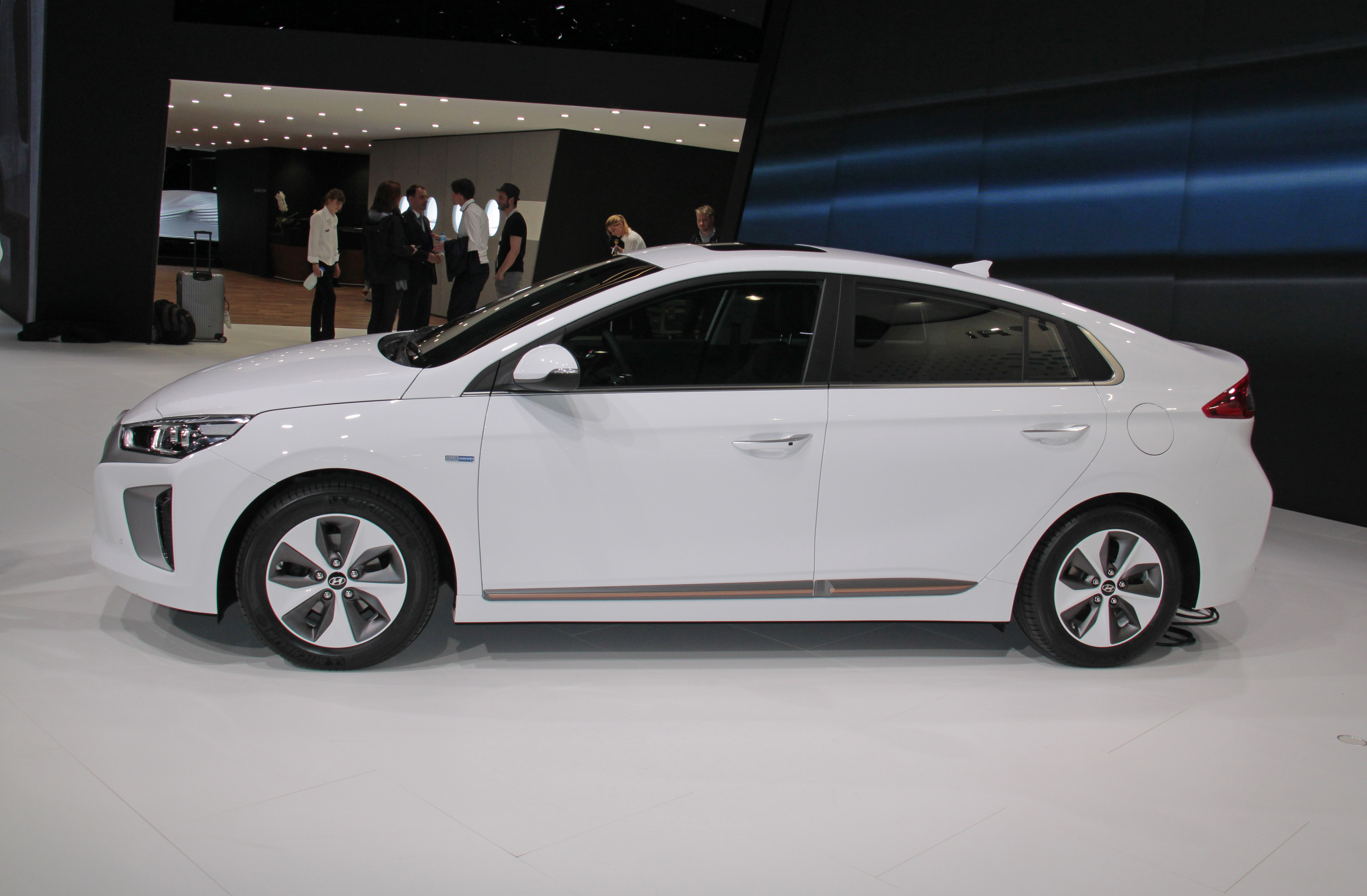 Hyundai Ioniq Electric at the 2016 Geneva Motor Show